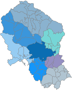 Map of regions of province of Córdoba